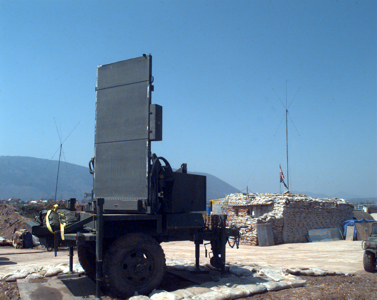 A U.S. Army AN/TPQ-36 Fire Finder Radar System is set up at the International Airport in Sarajevo, Bosnia and Herzegovina, on April 20, 1996. The Fire Finder Radar has the capability to determine where a round was fired from, where it will land and will compute coordinates for a counterattack if needed. The radar can track artillery rounds, mortars, and rounds as small as .50-caliber. An eight soldier team and the radar unit are deployed from the 161st Target Acquisition Battery, Kansas National Guard, are deployed as part of the NATO Implementation Force (IFOR) in Bosnia and Herzegovina for Operation Joint Endeavor.